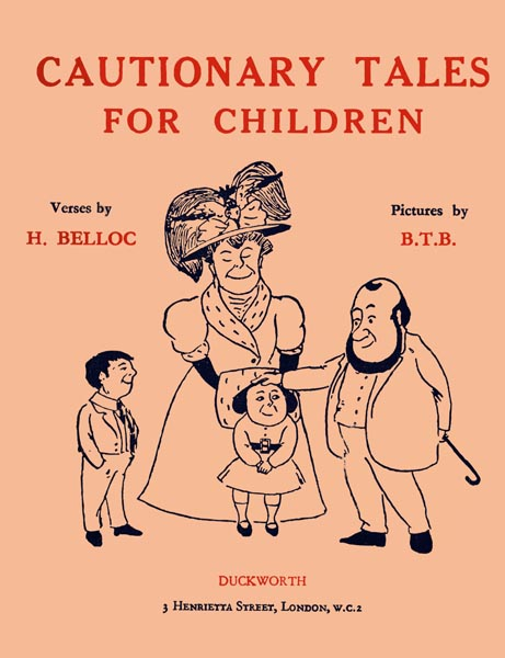 Original cover of Cautionary Tales for Children by Hilaire Belloc, illustrated by Basil T. Blackwood